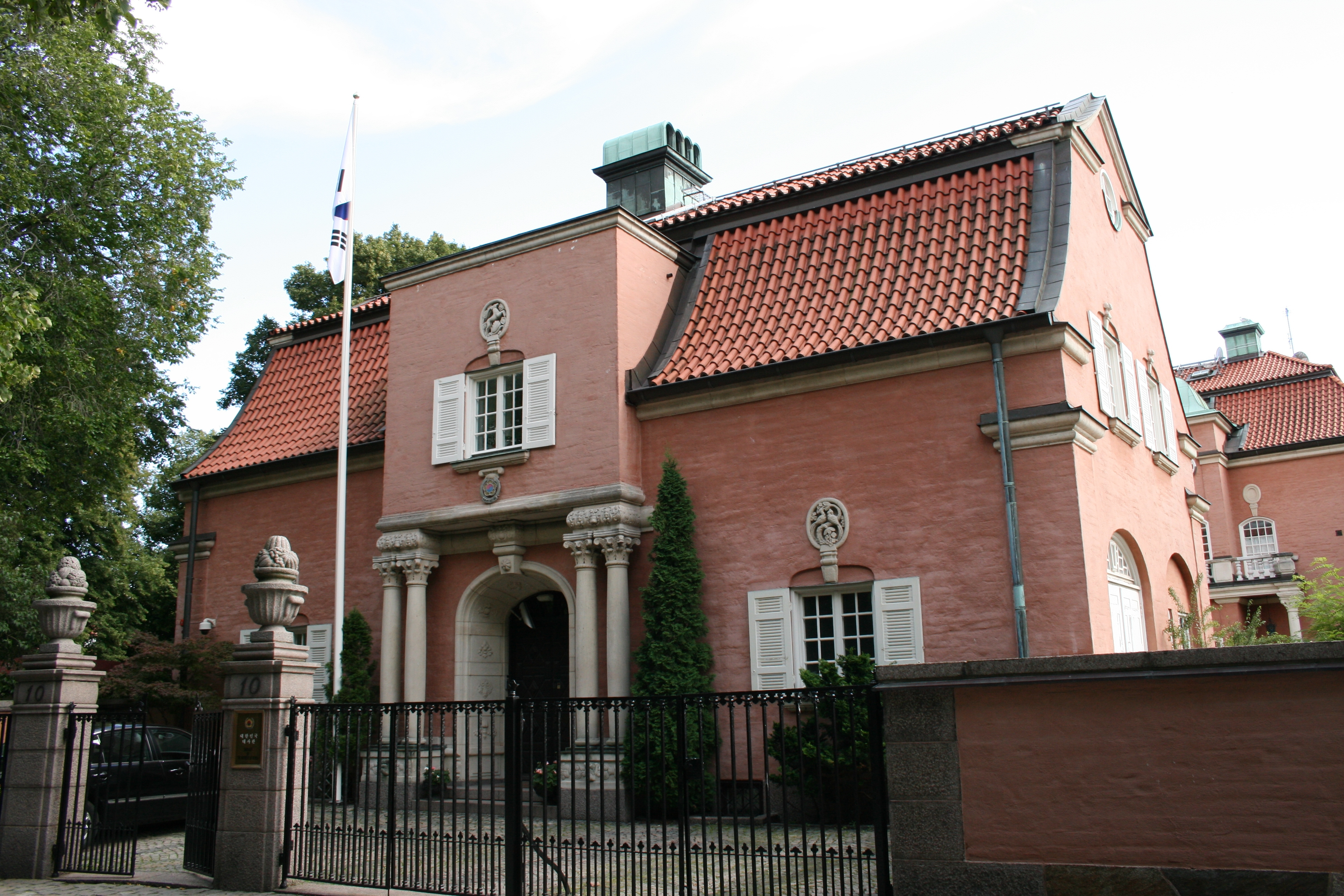 Embassy of the Republic of Korea in Stockholm, Laboratoriegatan 10